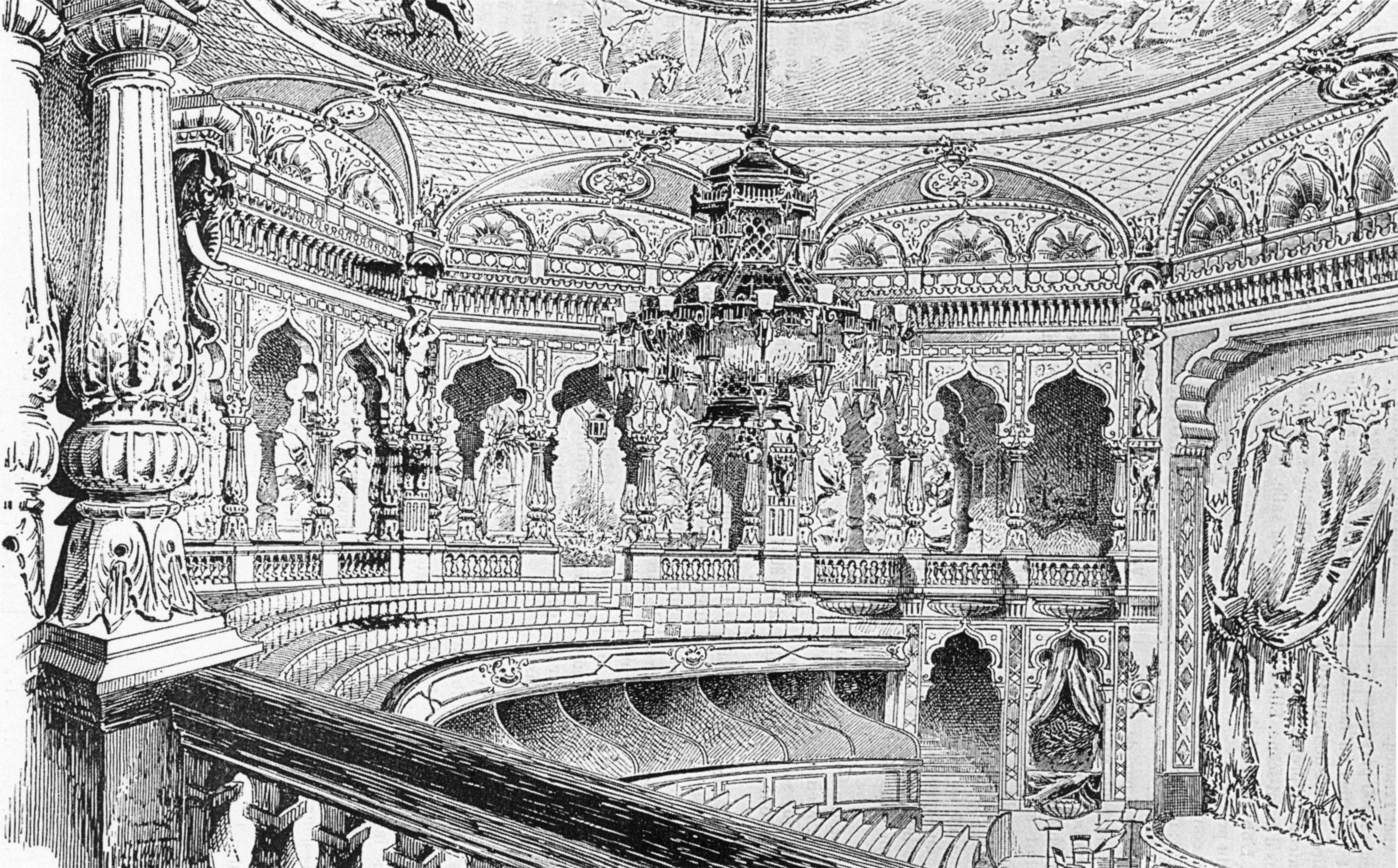 Interior view of the auditorium of the Éden-Théâtre in Paris